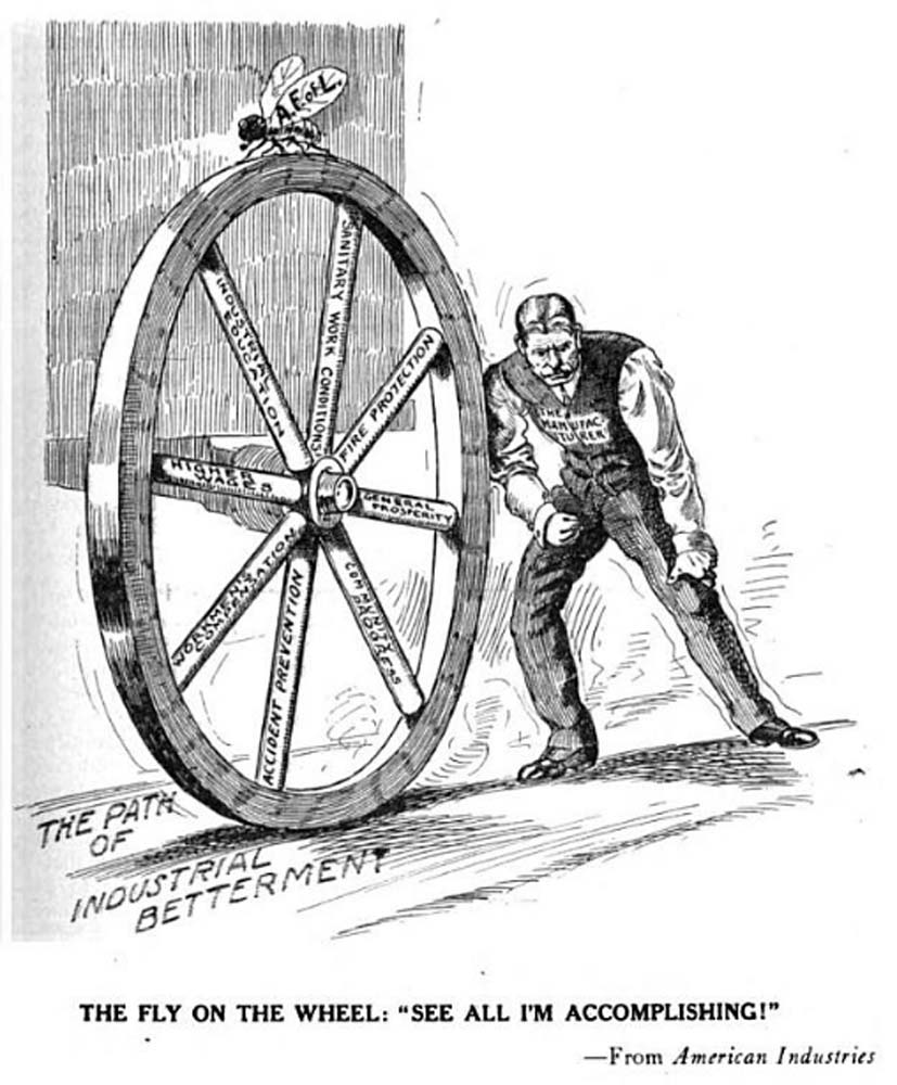 Cartoon depicting the AFL as "the fly on the wheel", with a manufacturer shouldering the wheel on "the path of industrial betterment", from American Industries